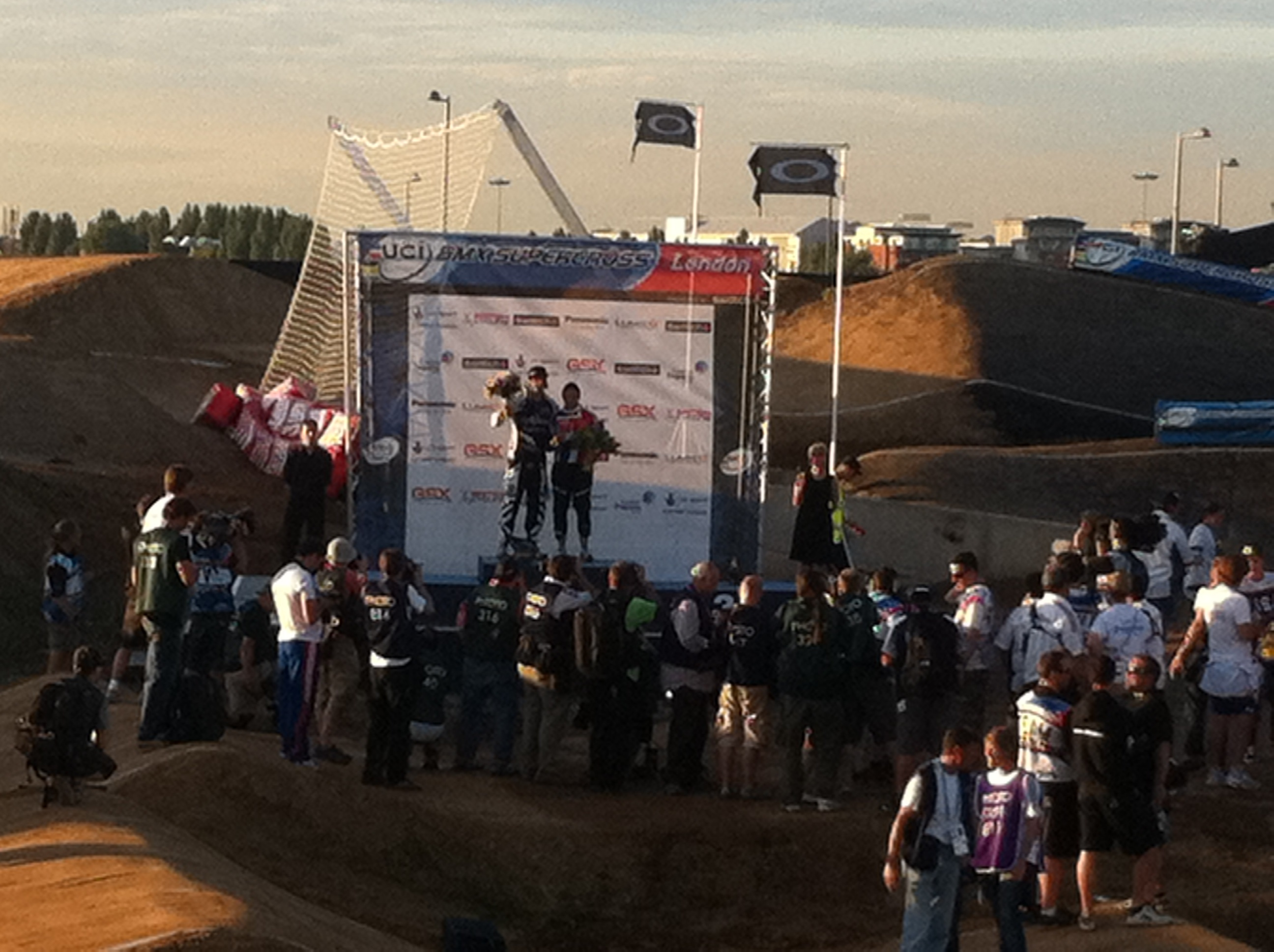 The two winners at the BMX Supercross World Cup 2011 London Marc Willers of New Zealand on the left and Shanaze Reade of Great Britain on the right.